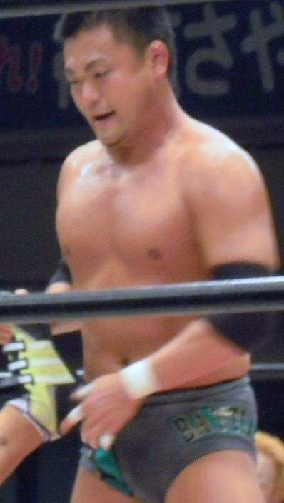 Japanese professional wrestler,Munenori Sawa. Dec 31 2010 Count down Special Korakuen Hall.